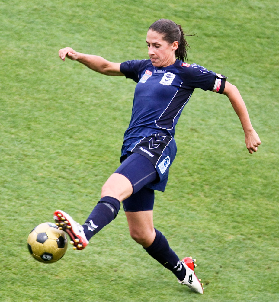 Marlies Oostdam playing for Melbourne Victory in the W-League against the Central Coast Mariners.